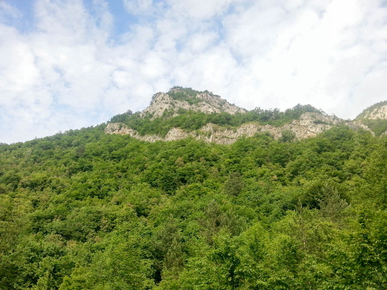 Chervenata stena ("Red Wall) reserve